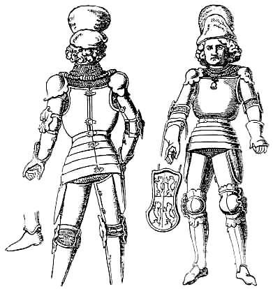 Wilhelm VI von Gotland in alwite harnisch (white armour, back & front) beggining of 15 c (an exmaple of transitional armour from brigandines to kasten-brust and milanese full plate armours)